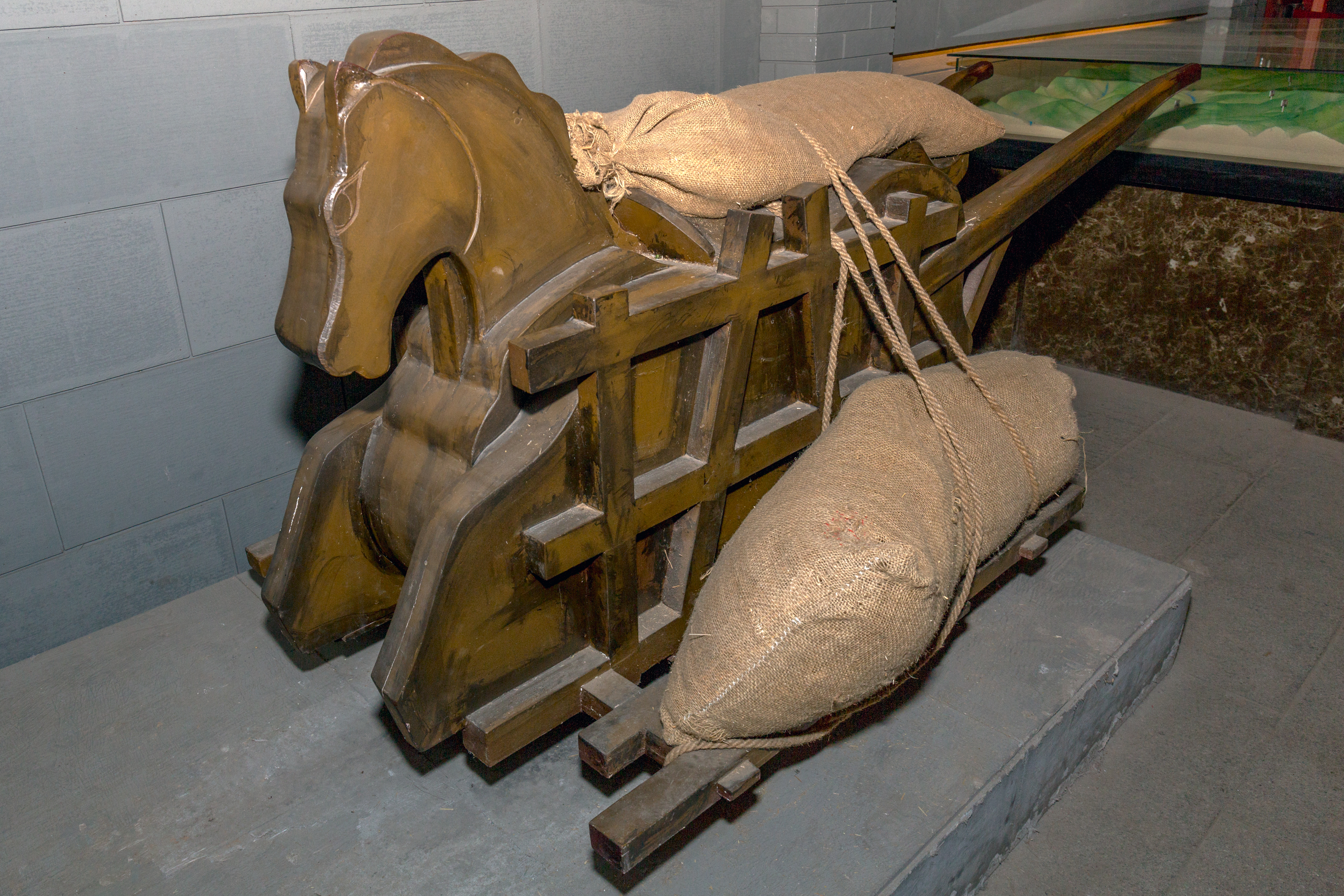 Flowing horse (流馬)